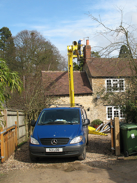 A chimney sweep using an hydraulic platform at a house in Mill Street, Stanton St John, Oxfordshire